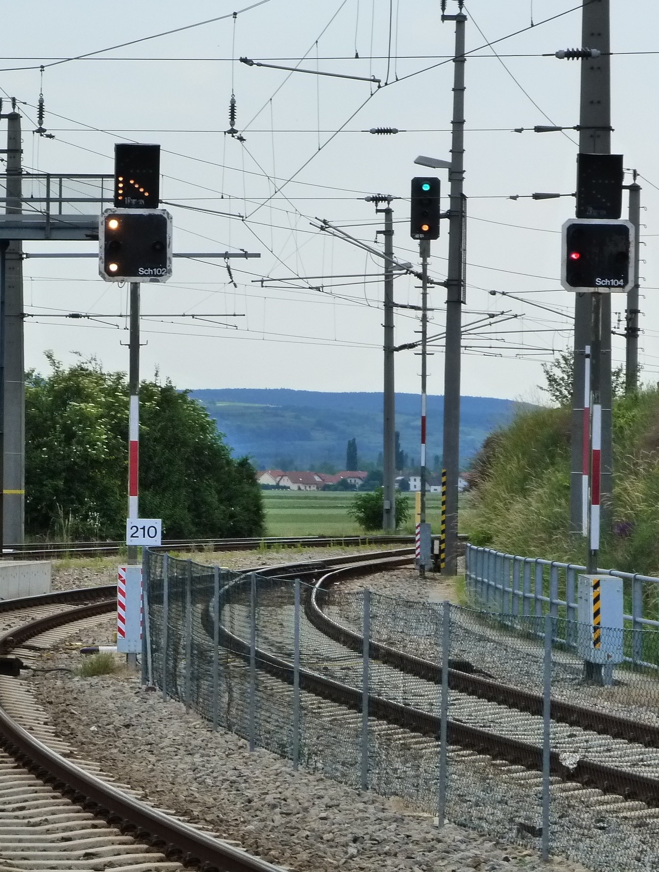 Signals Sch102 with 1R102-104, R102-104, and Sch104 with 2R102-104 at Hadersdorf am Kamp, Austria